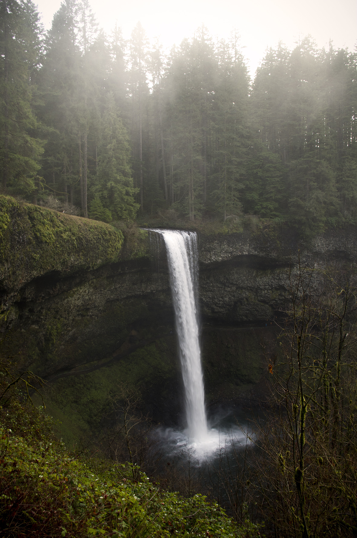 South Falls, Silver Falls State Park, Oregon